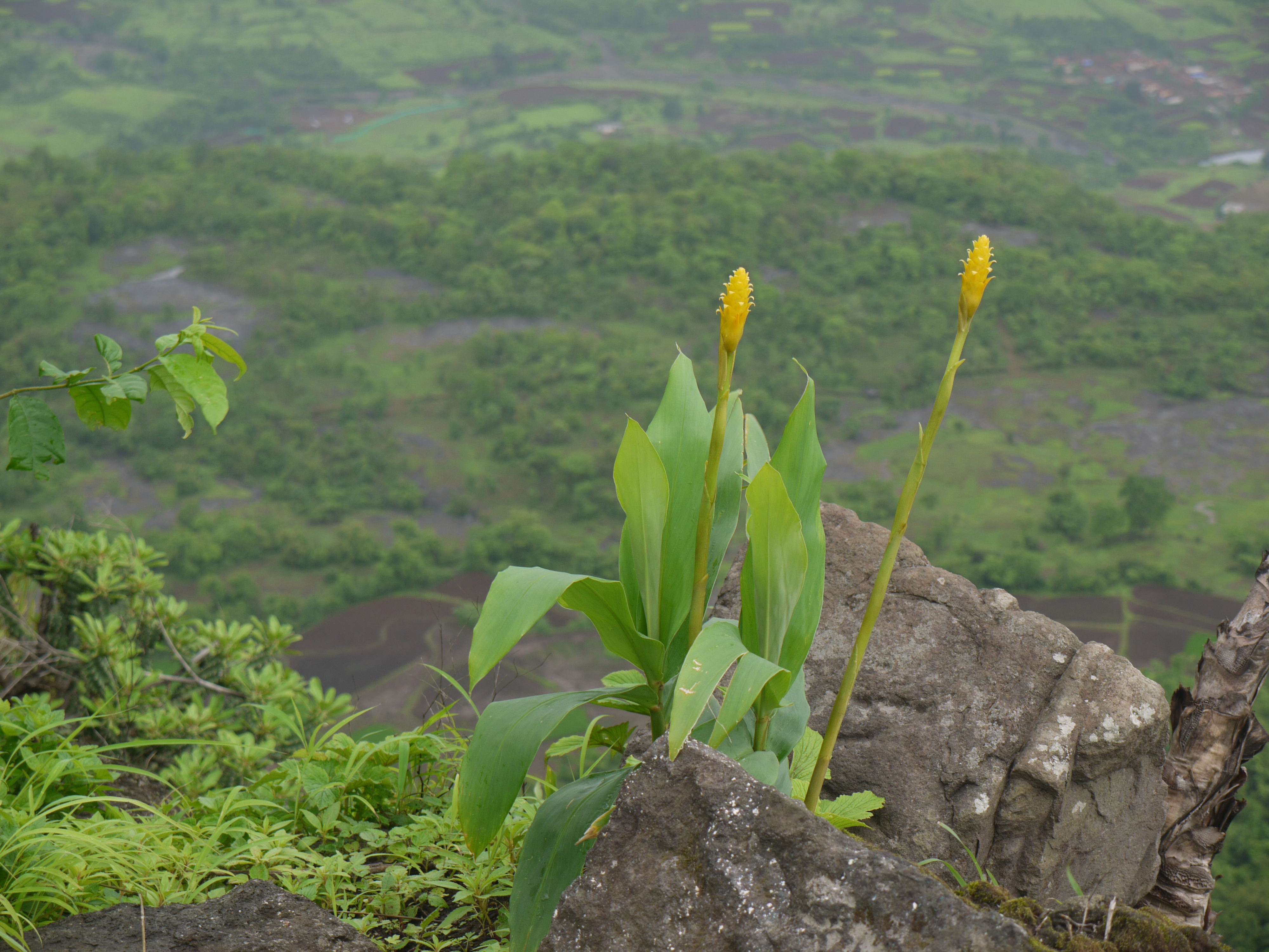 Zingiberaceae (ginger family) » Zingiber diwakarianum R.Kr.Singh zing-ee-ber -- Sanskrit, shaped like a horn ... Dave's Botanary dee-wah-kar-ee-AH-num -- named for Dr P G Diwakar, Scientist, BSI commonly known as: Diwakar's ginger • Marathi: रान आलें raan aale Endemic to: n & c Western Ghats (of India) References: efloraofindia • Flowers of Sahyadri by Shrikant Ingalhalikar